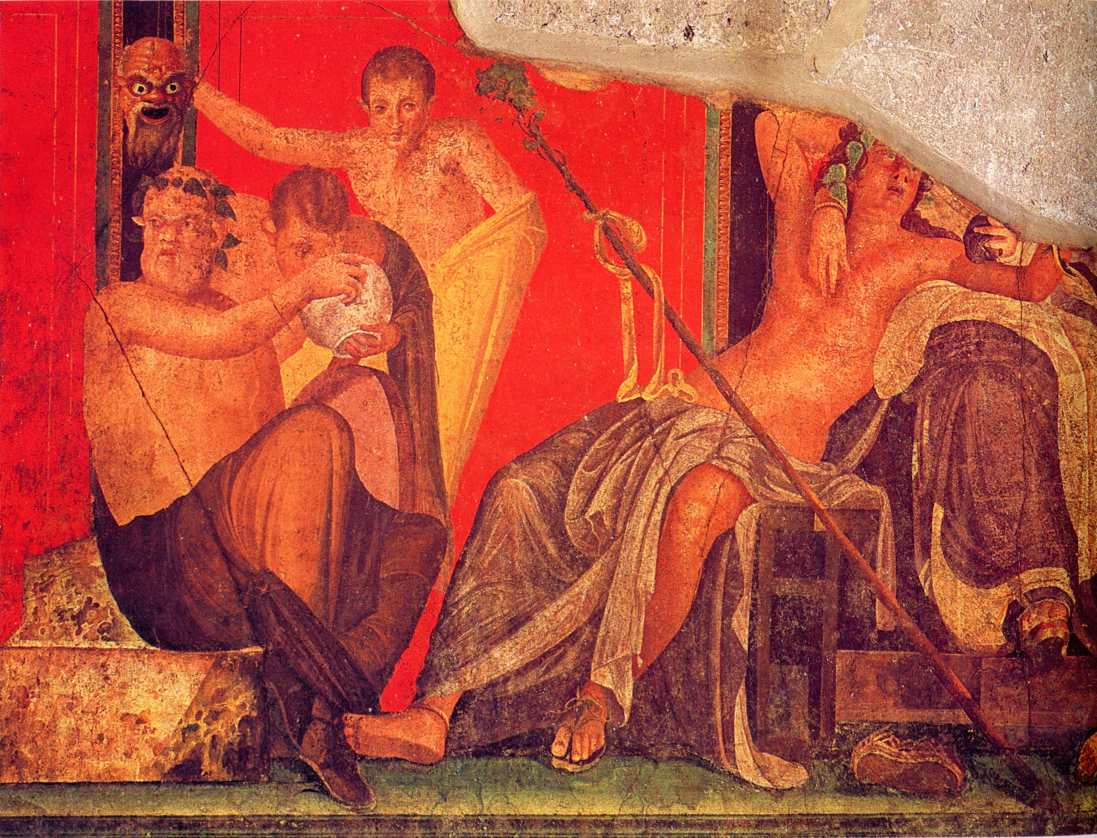 Fresco from the Sala di Grande Dipinto, Scene VI in the Villa de Misteri (Pompeii).